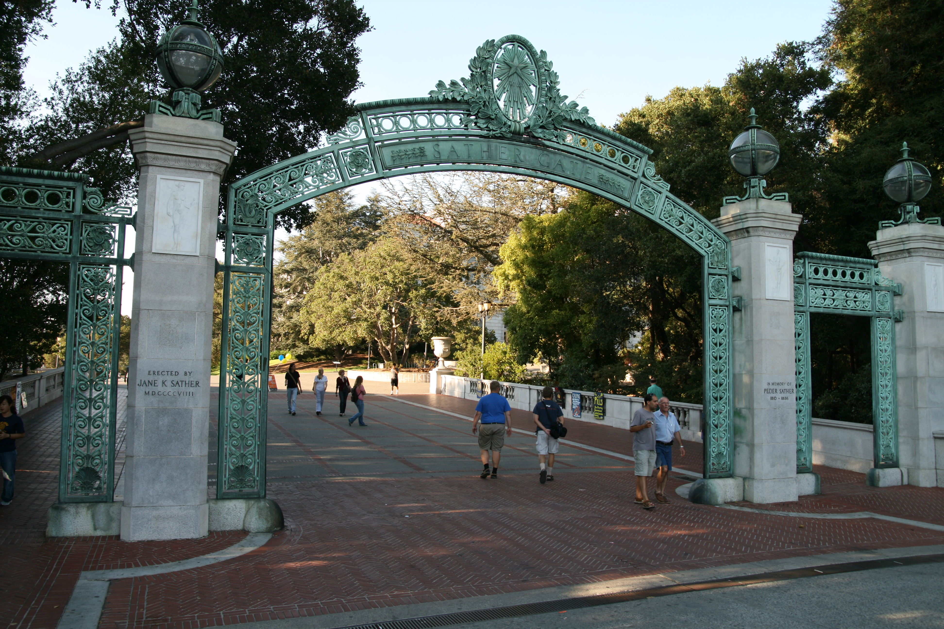 The Sather Gate on the University of California-Berkeley campus.